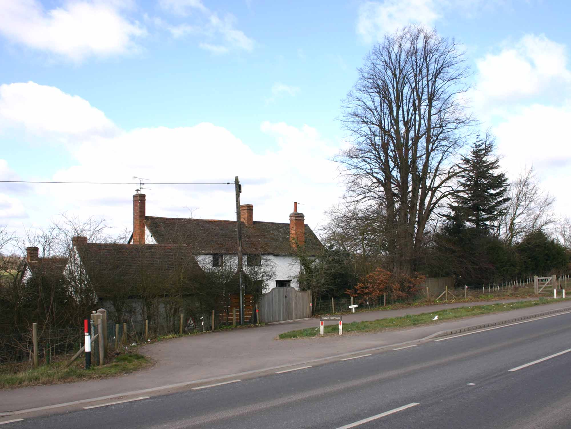 The Forge Cottage, A429 near Wasperton Looking WNW across the A429.